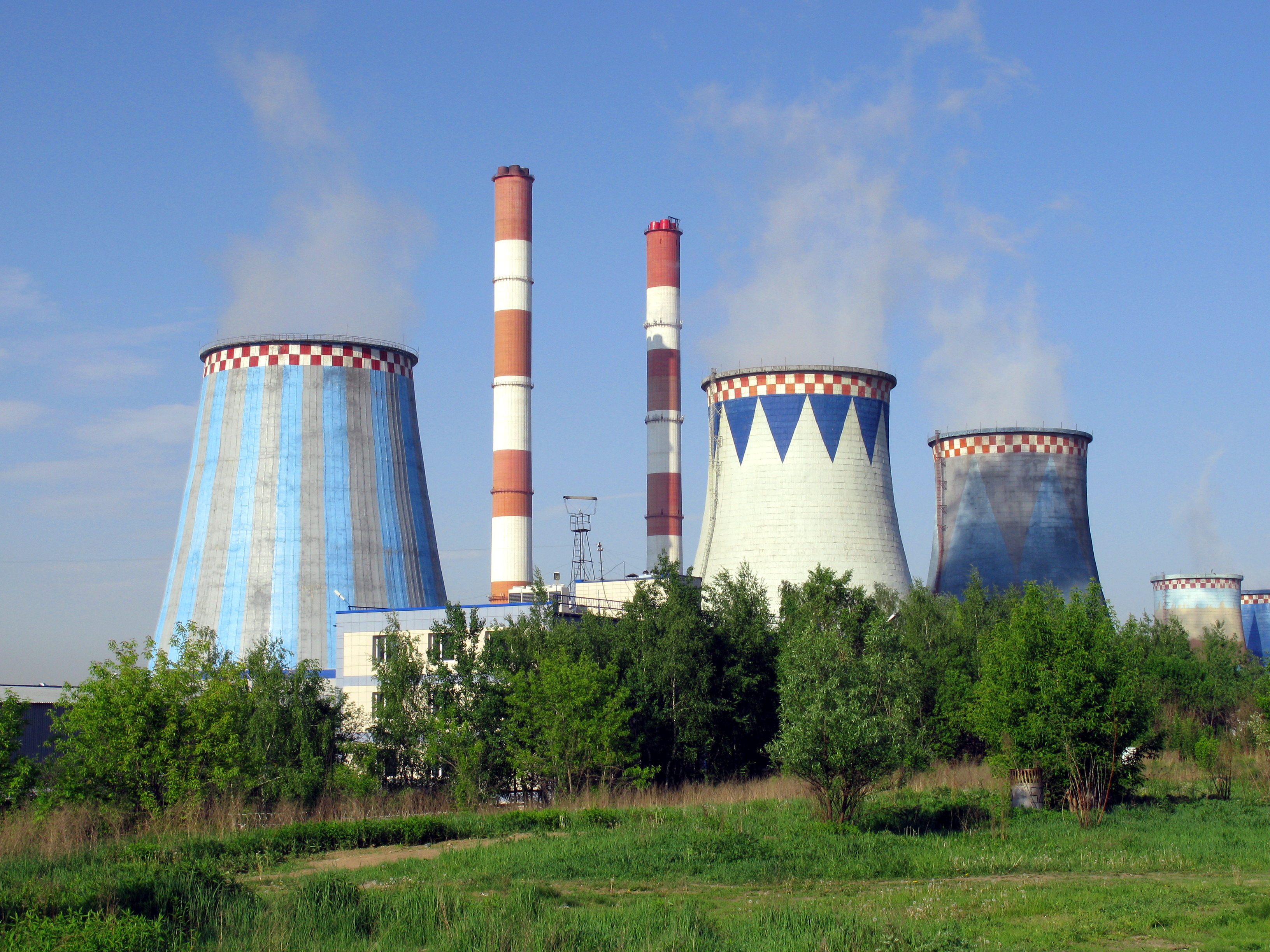 Heat and power plant #23 (Moscow, Goliyanovo)